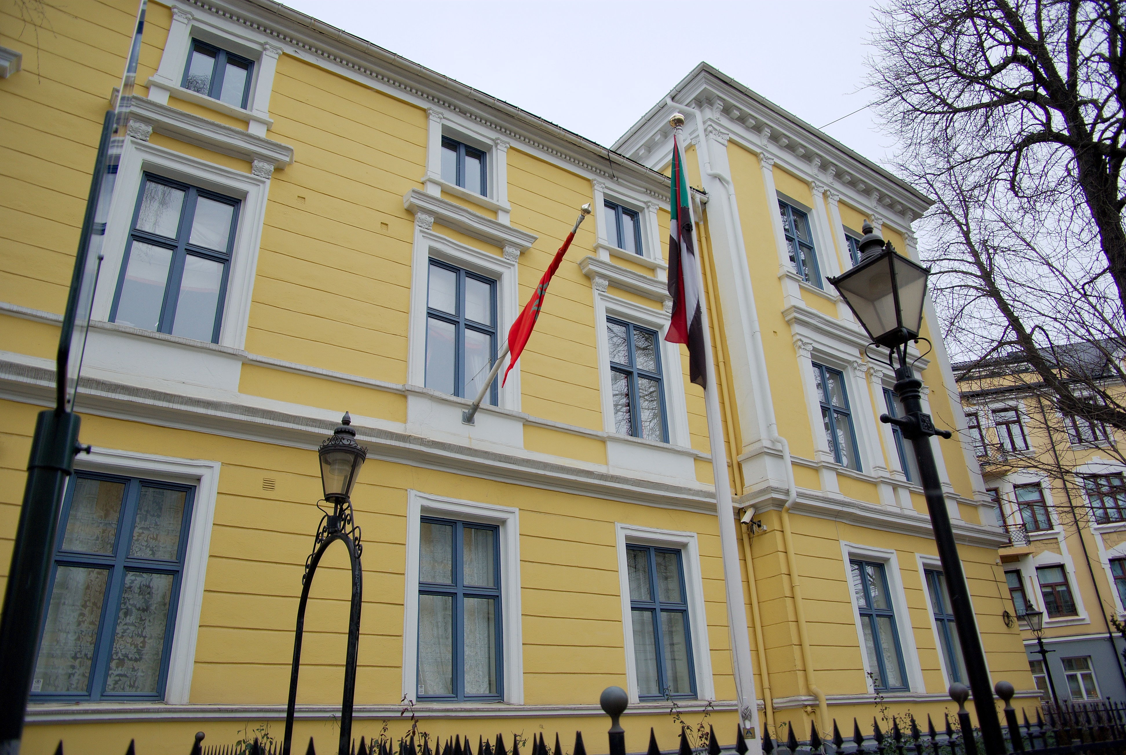 The Sudan and Marocco embassy in Oslo, Norway. Holtegata 28, Homansbyen